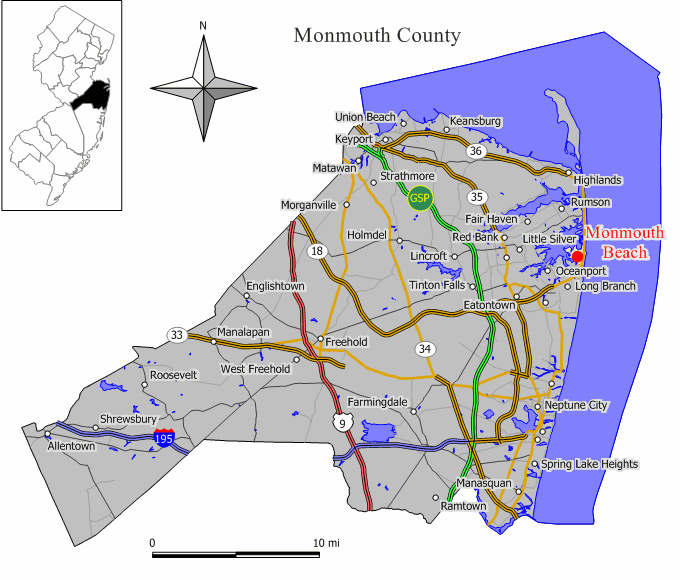 Source: Jim Irwin